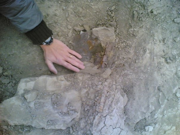 Discovery of the Etruscan Dolphin: Etruridelphis giulii founded by Simone Casati and Marco Zanaga, GAMPS Museum